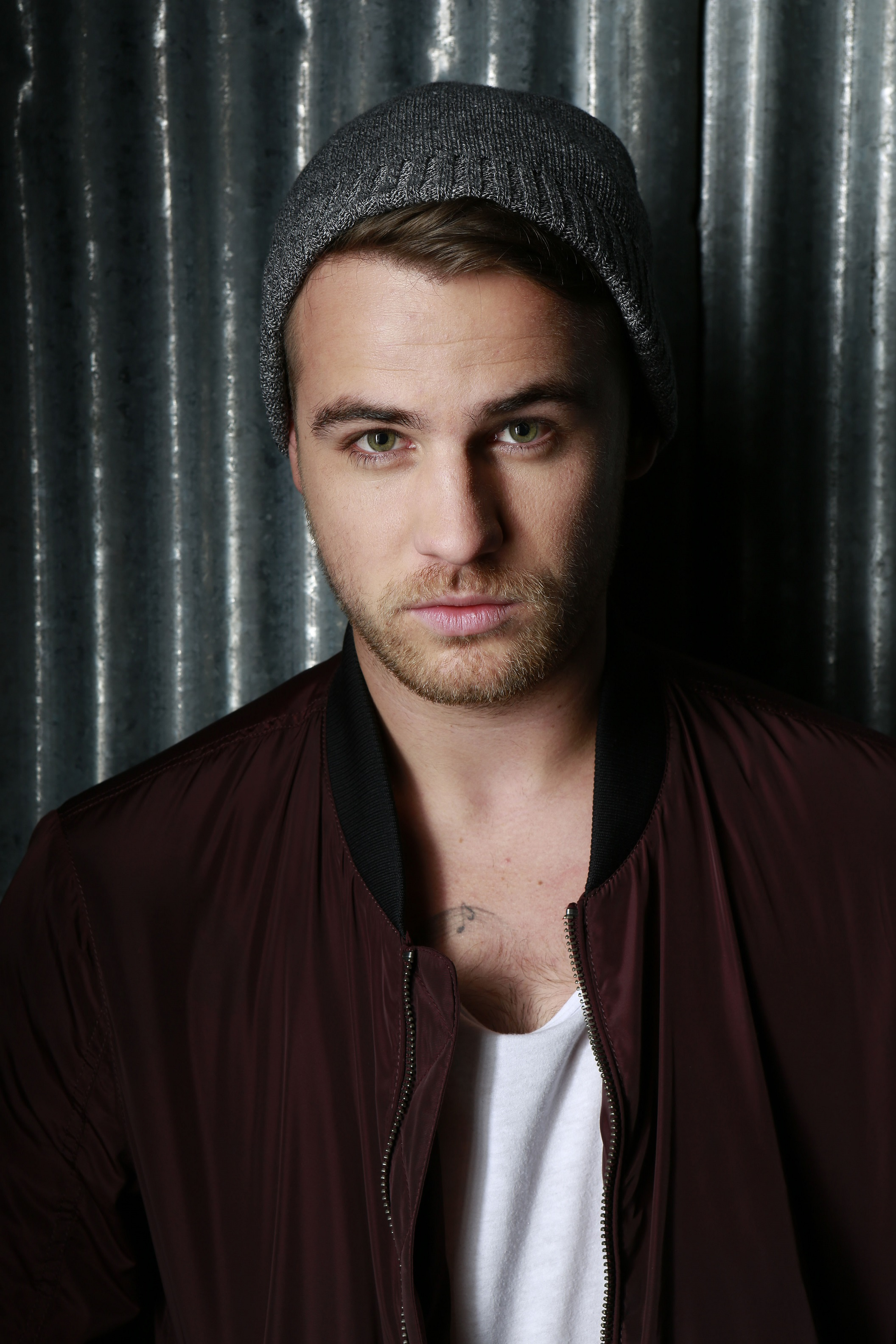 Pressefoto von T-Zon